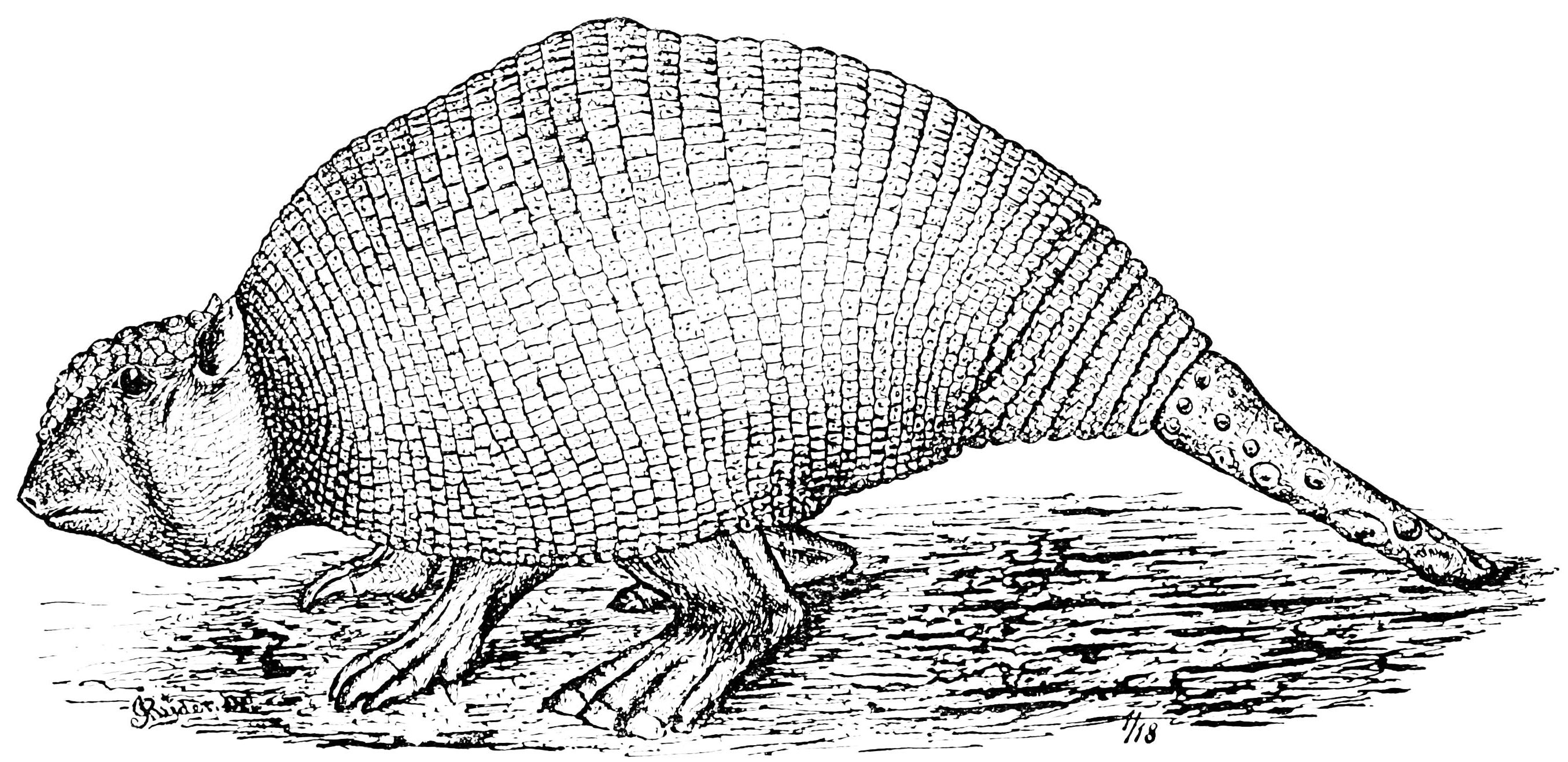 Panochthus tuberculatus